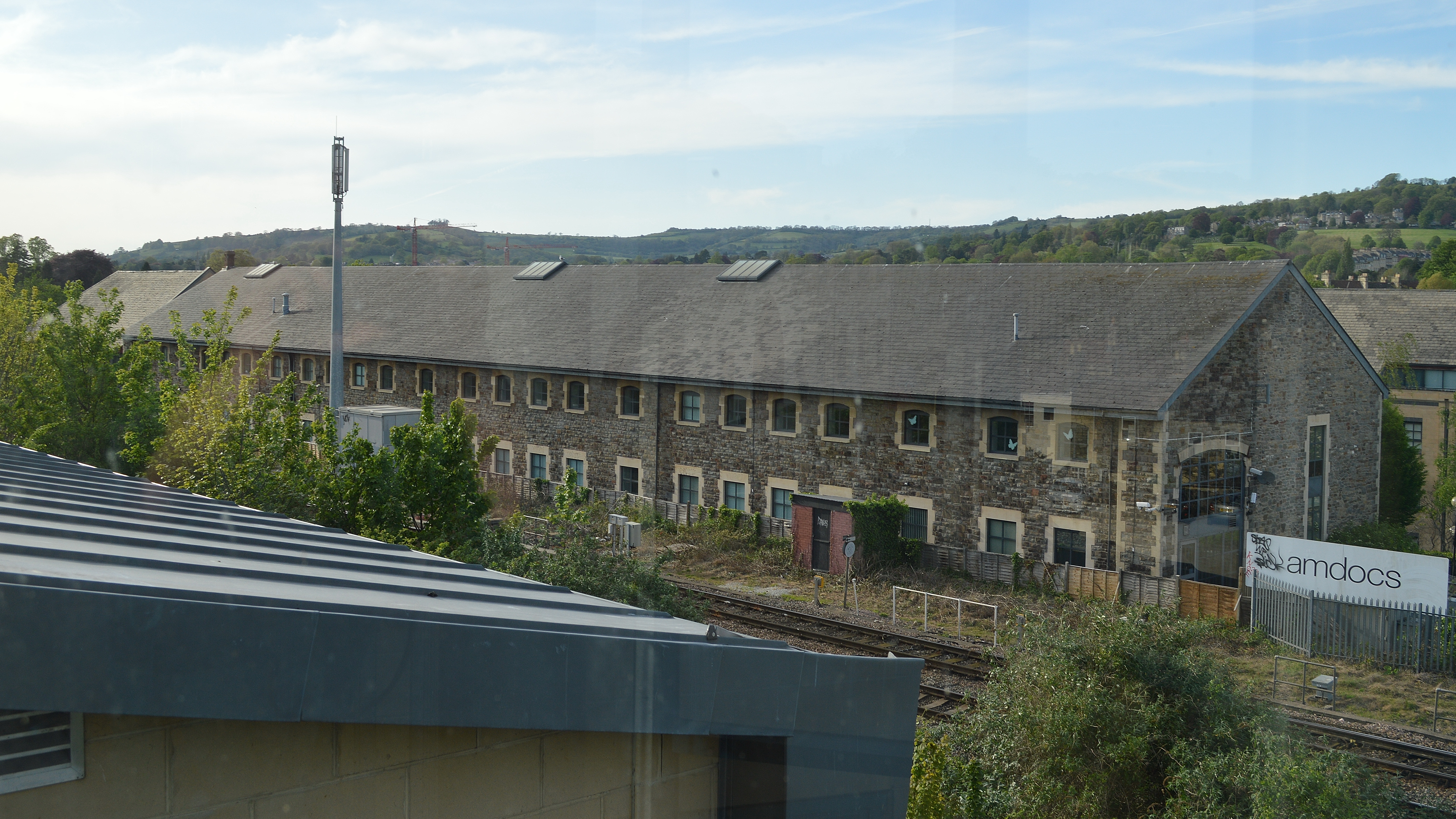 The former Westmoreland Road goods shed, Bath, from university student accomodation on the opposite side of the track. Note the former train entrance, now glassed over, on the right end of the building, and the space for goods sidings on the track side. It is now part of an office development on the site of the former Westmoreland Road goods yard. Now occupied by the Amdocs software and services company.